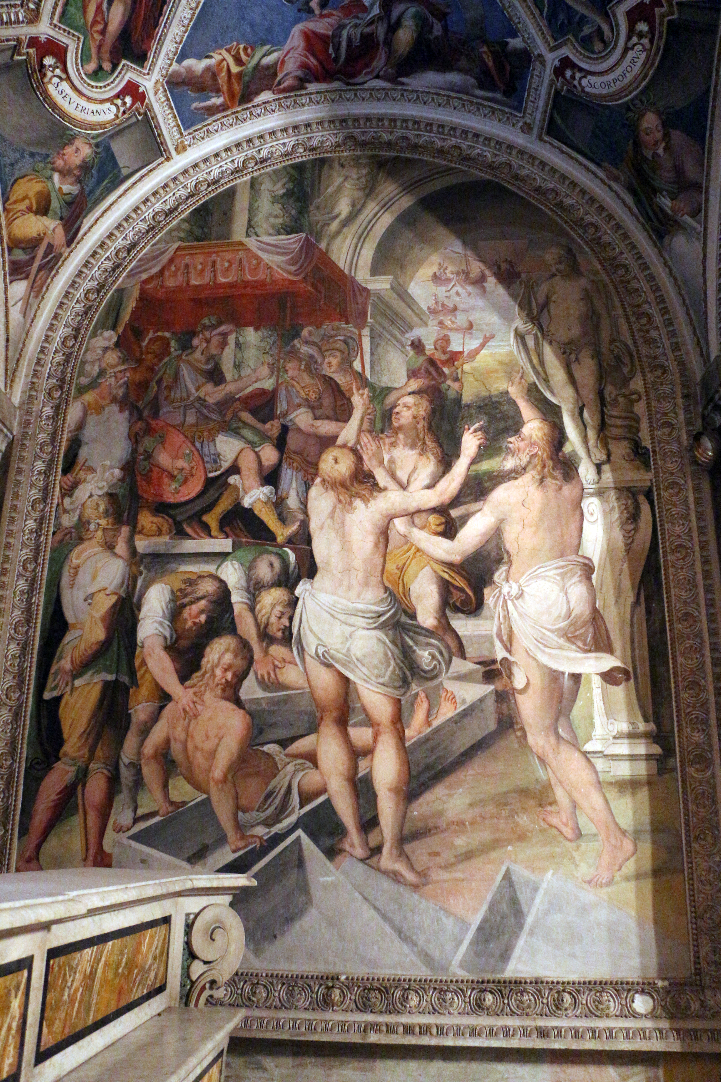 Santi Quattro Coronati (Rome) - Frescos by Raffaellino da Reggio